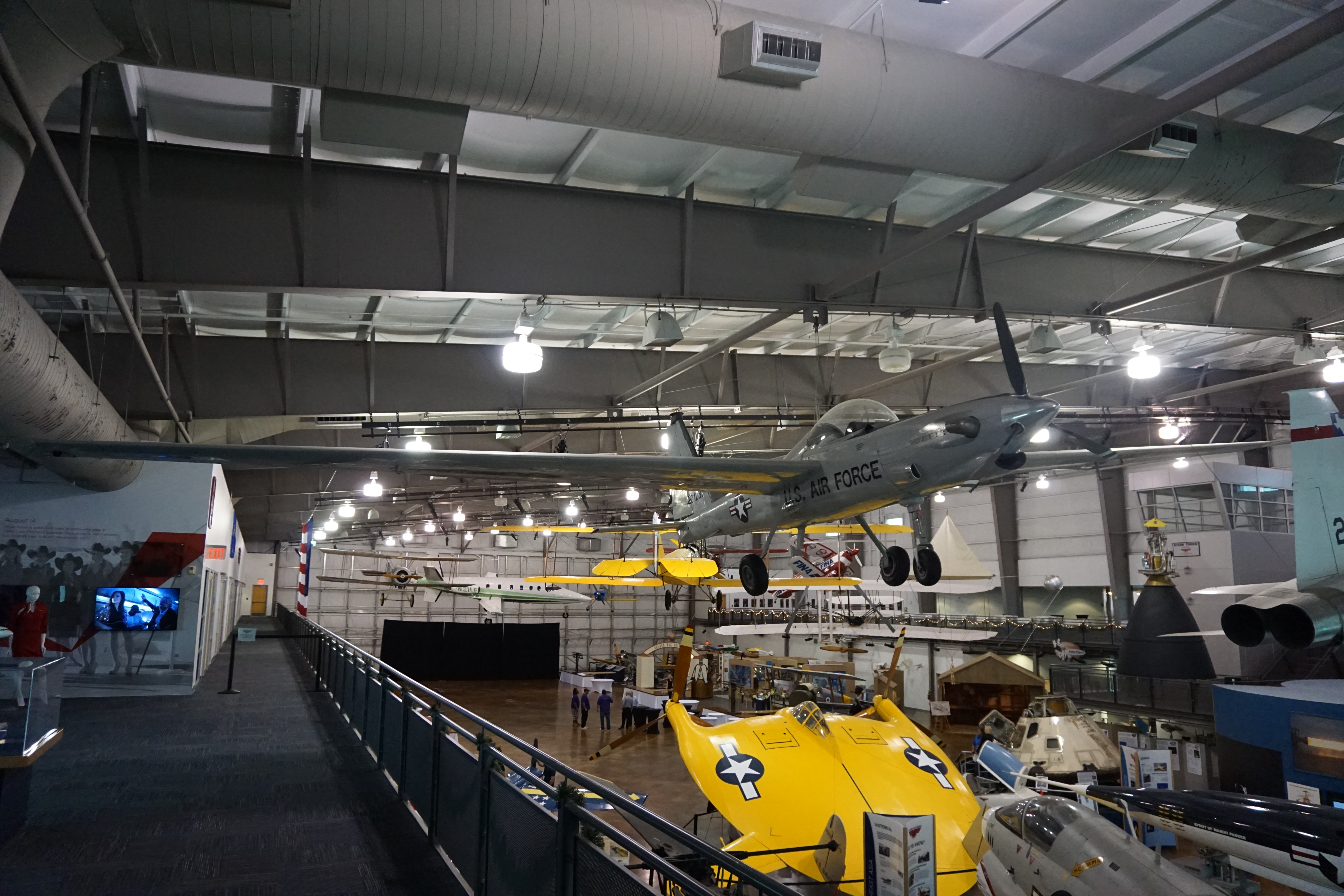 An LTV XQM-93A on display at the Frontiers of Flight Museum at Dallas Love Field in Dallas, Texas (United States).